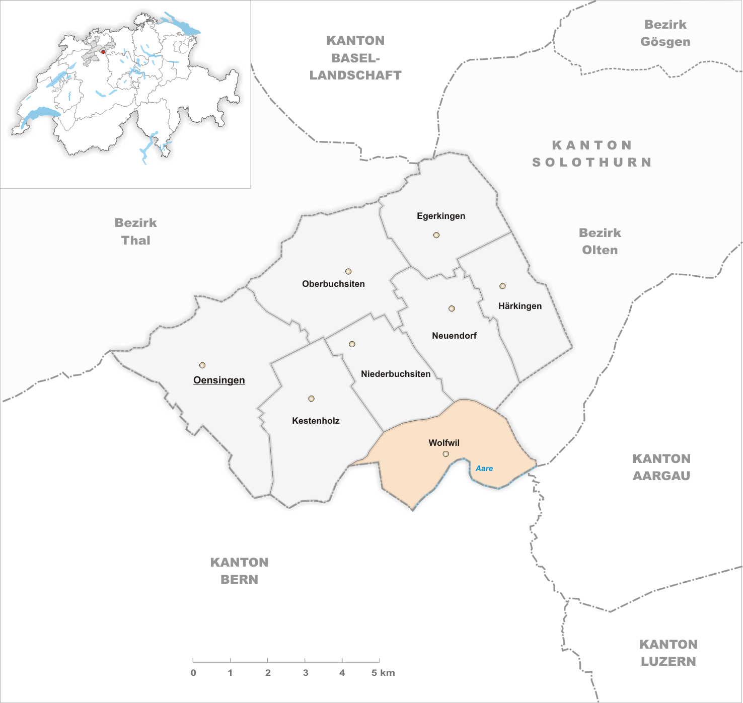 Municipality Wolfwil